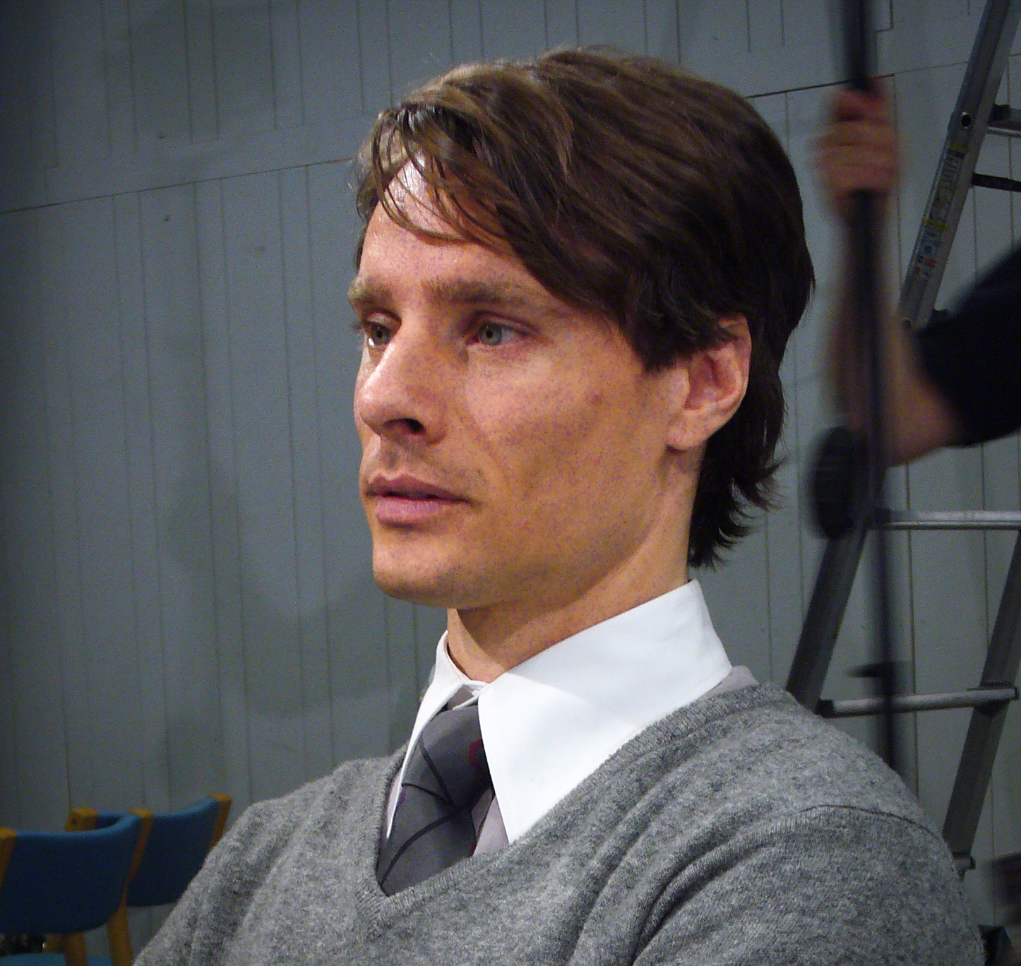 Peter Siepen at production of TV6 promotional film